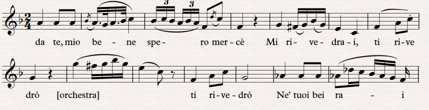 Extract from aria 'Di tanti palpiti' from Rossini's opera 'Tancredi' - melody line only